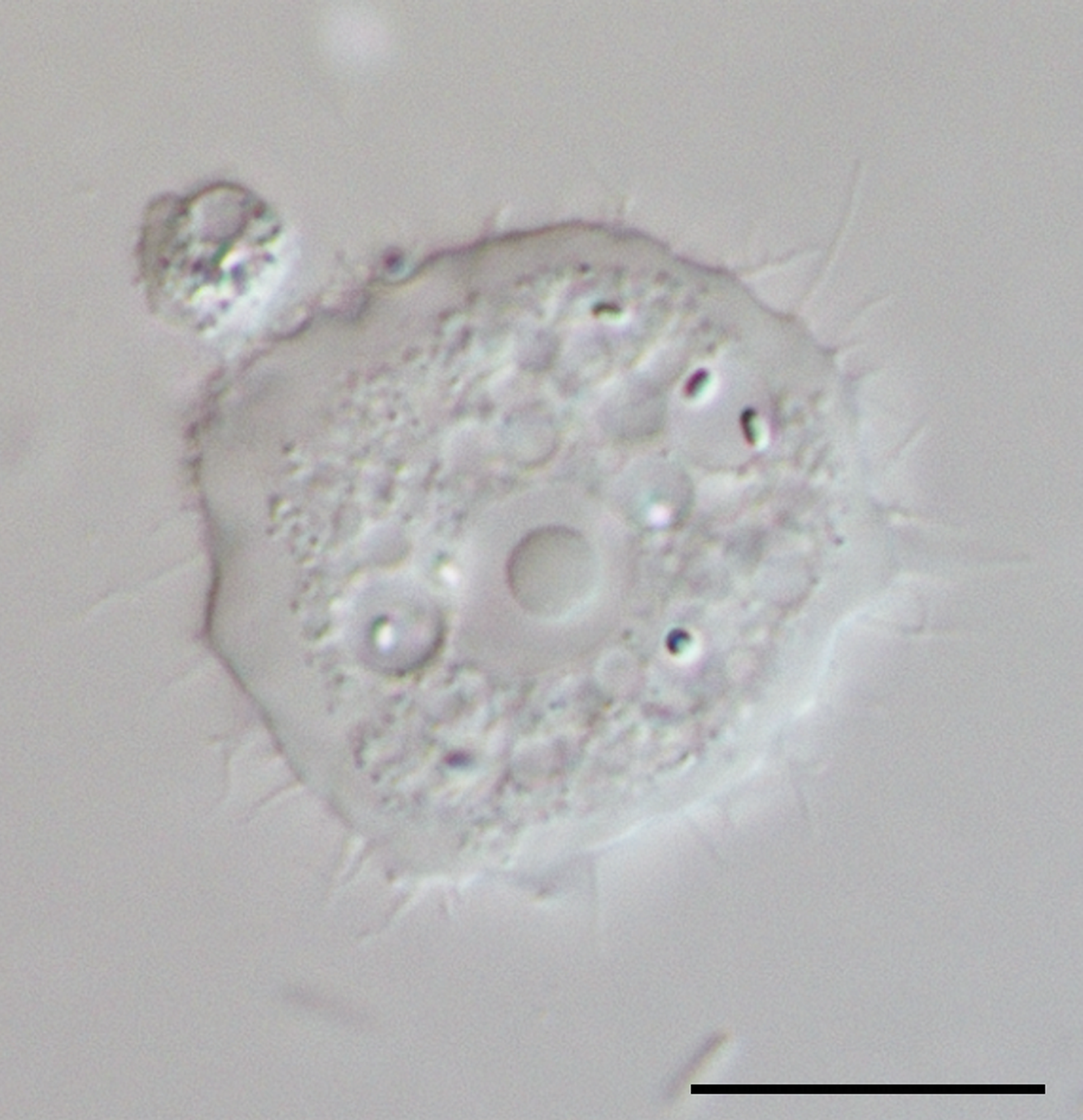 Figure 3B of published paper. Acanthamoeba trophozoites with the characteristic acanthopodia in bright field microscopy. Scale bar: 10 μm. Originals.